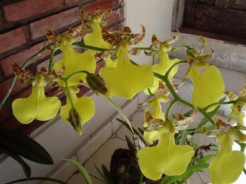 A work released per the GNU Free Documentation License by: Martín Javier Battiti de Tegucigalpa, Honduras